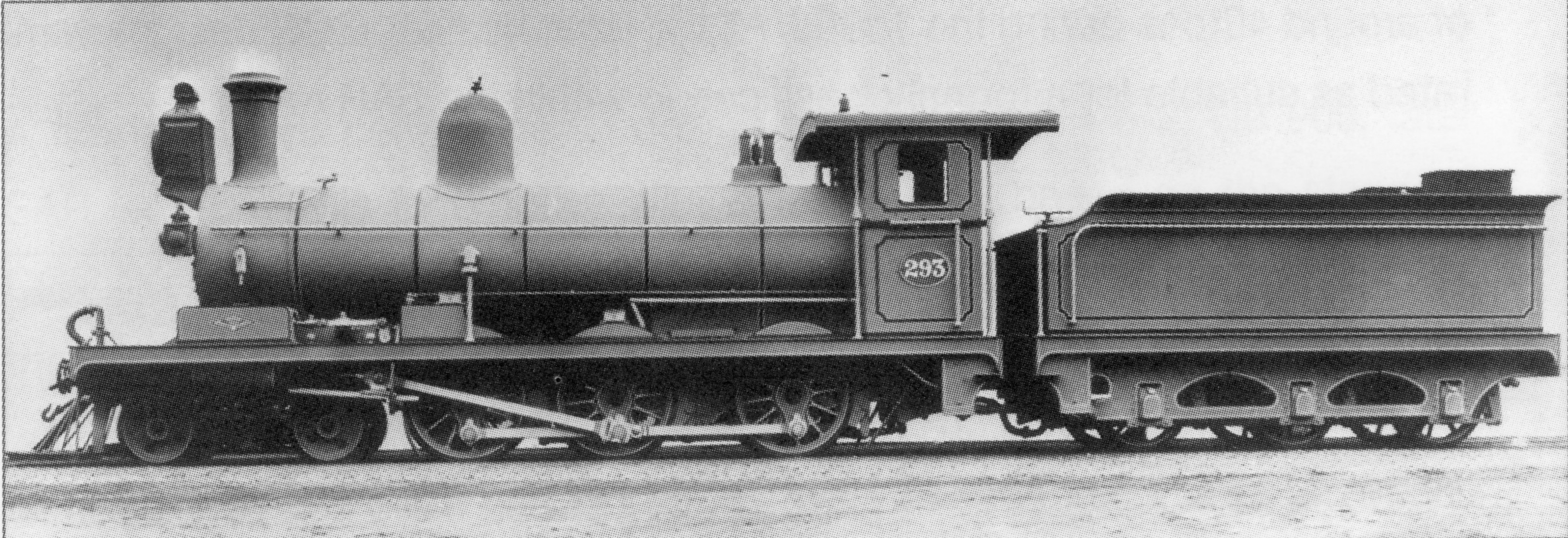 Cape Government Railways 5th Class 4-6-0 no. 293, renumbered 493, then OVGS no. 42, then CSAR no. 319, then SAR no. 0319, with short smokebox